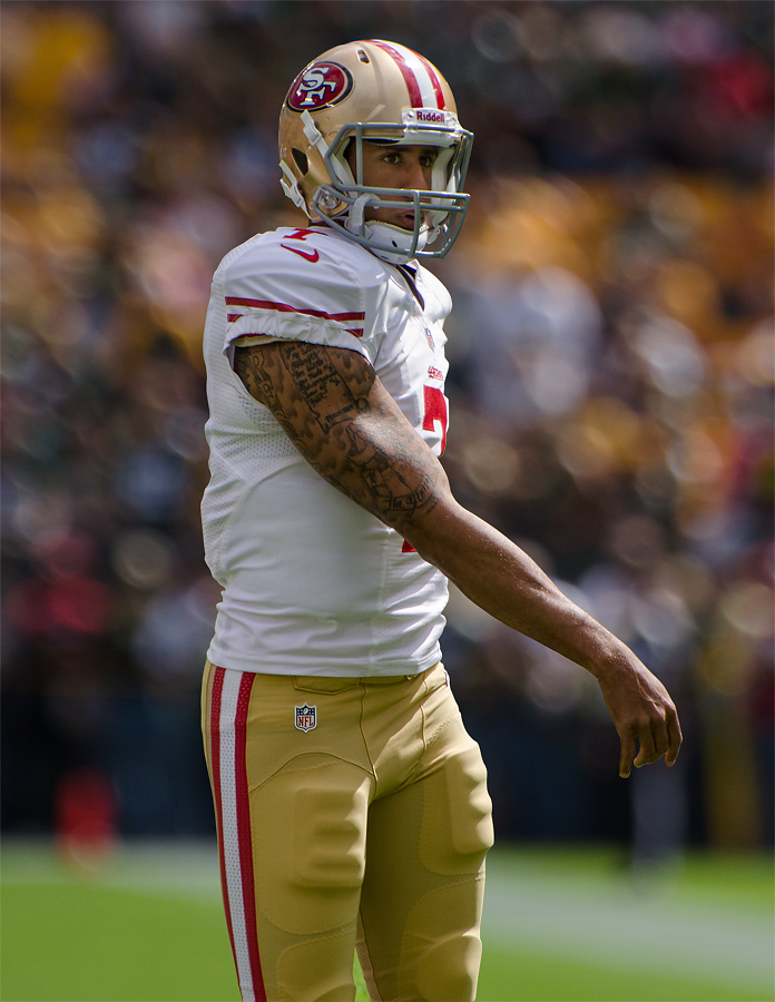 San Francisco 49ers vs. Green Bay Packers at Lambeau Field on September 9, 2012. Photo by Mike Morbeck.